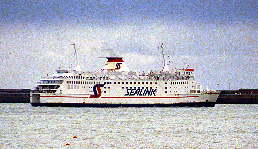 Cote d'Azur Sealink ferry departing from Dover in 1991. Other names: SeaFrance Renoir, Eastern Light Information about the vessel may be found at IMO 7920534.A ship can change name and flag state through time, but the IMO number remains the same through the hull's entire lifetime. As a result, it can be useful to identify a ship by using the IMO number. Scanned from a Fujichrome 35mm slide.